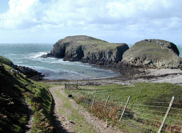 Ynys Y Fydlyn. Easily accessible from the cove at low tide, Ynys Y Fydlyn is a prominent feature of this remote and rugged part of the island's coast.